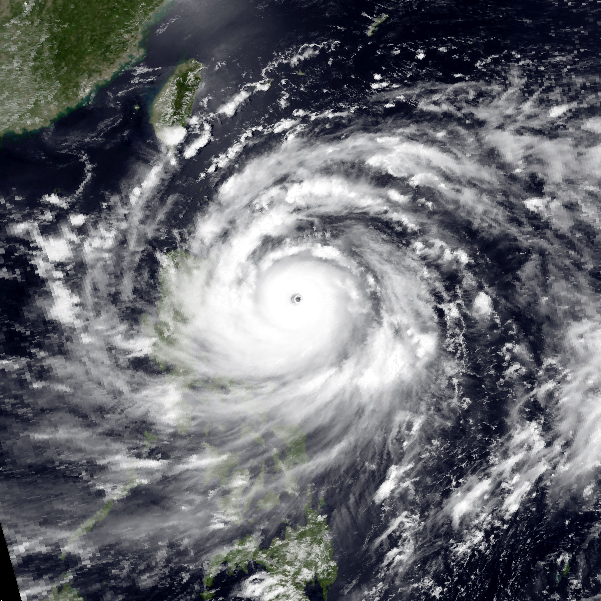 Super Typhoon Gordon on July 15, 1989 with winds of 160 mph and a pressure of 915 mbar.